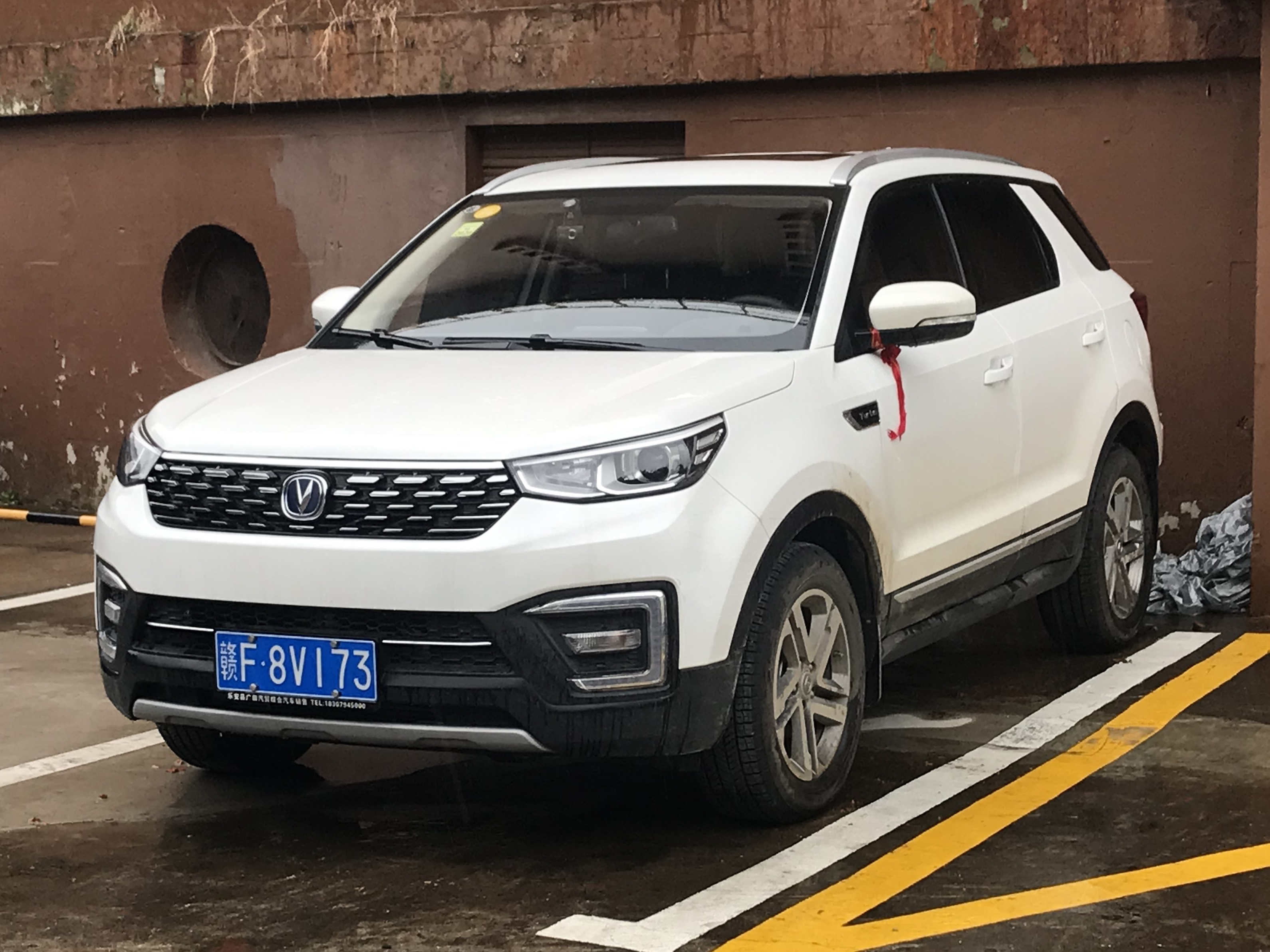 Changan CS55 facelift front